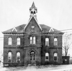 Stone College Building in Jefferson College in Canonsburg, Pennsylvania. "In 1791 John Canon donated this lot to Canonsburg Academy, which in 1802 was chartered as Jefferson College. The original stone college building was bought by the borough in 1843 and demolished to build a town hall."